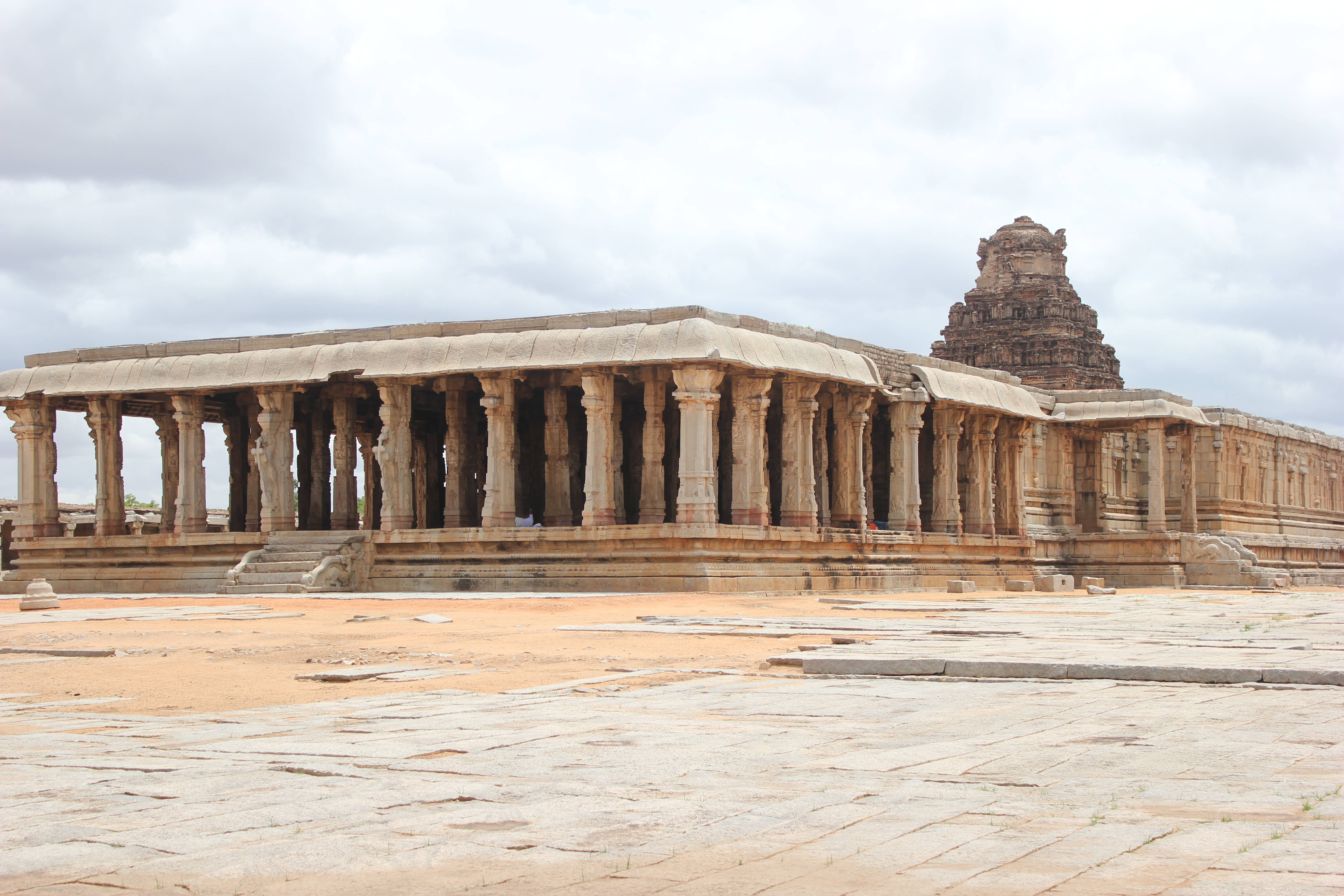 This photograph of the Pattabhirama temple was taken by me at Hampi, a UNESCO world heritage site in Bellary district, Karnataka state, India. The temple was constructed during the reign of King Achyuta Raya (1529-1546 AD) and was built in memory of his queen Varadarajamma.